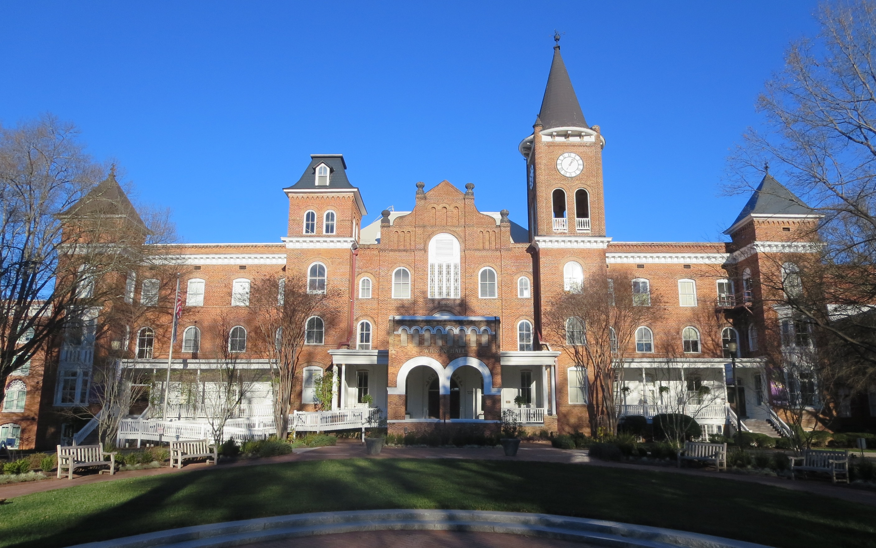 This is the main building at Converse College, now known as Wilson Hall. It was originally built in 1889, then rebuilt in 1892 after a fire.